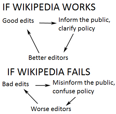 A demonstration of the Virtuous circle and vicious circle involving in Wikipedia editing, the main premise behind M:Wikipedia and why it matters